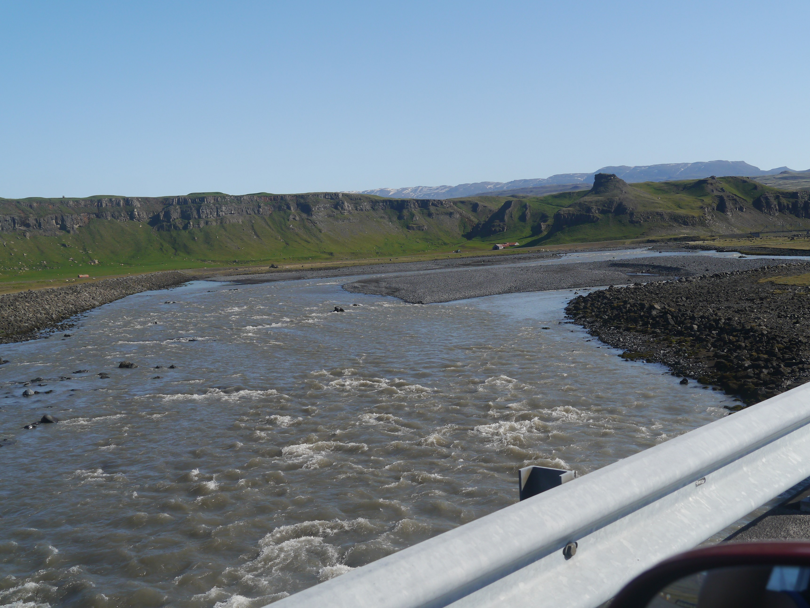 along the Southern Coast on the Ring Road, Iceland